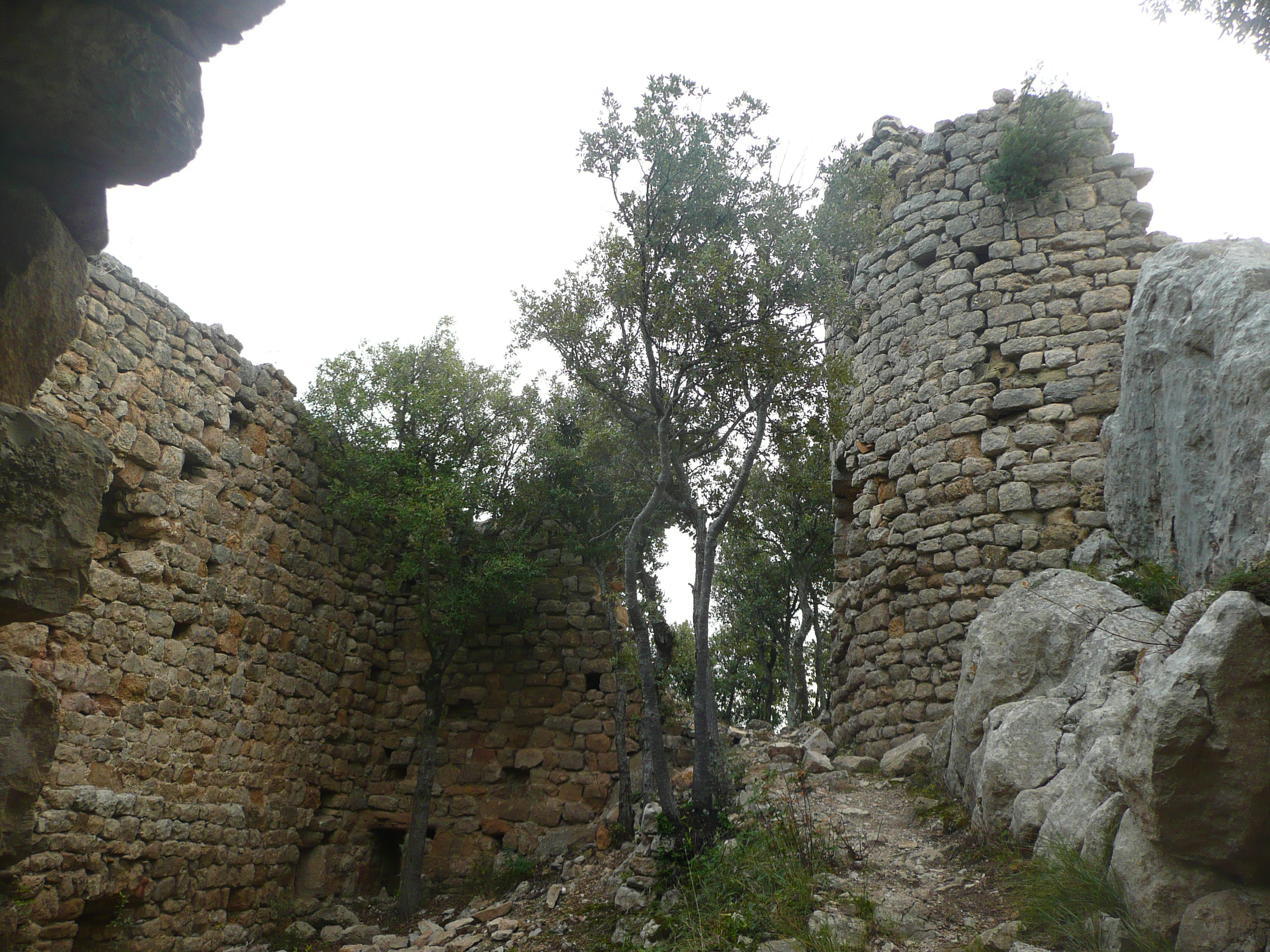 The wall and the round tower at the right